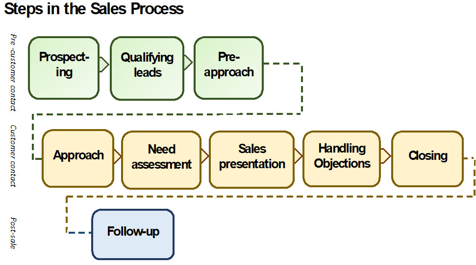 orignal diagram; created in Photoshop; based on information contained in the article on Personal selling